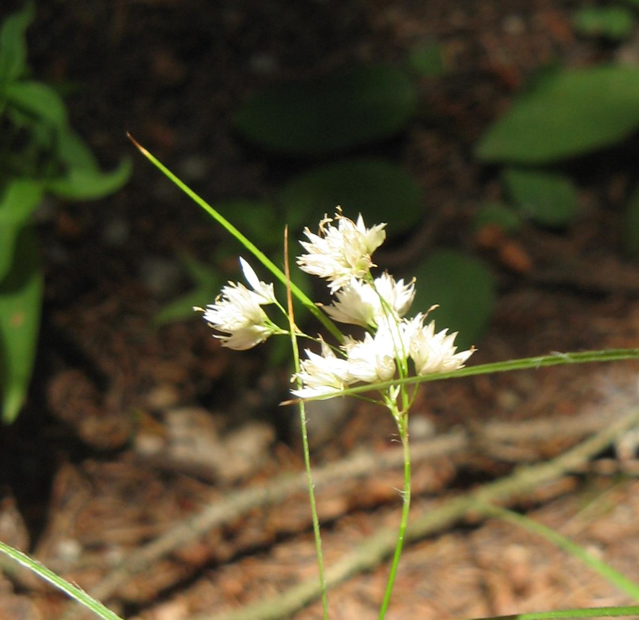 Luzula nivea